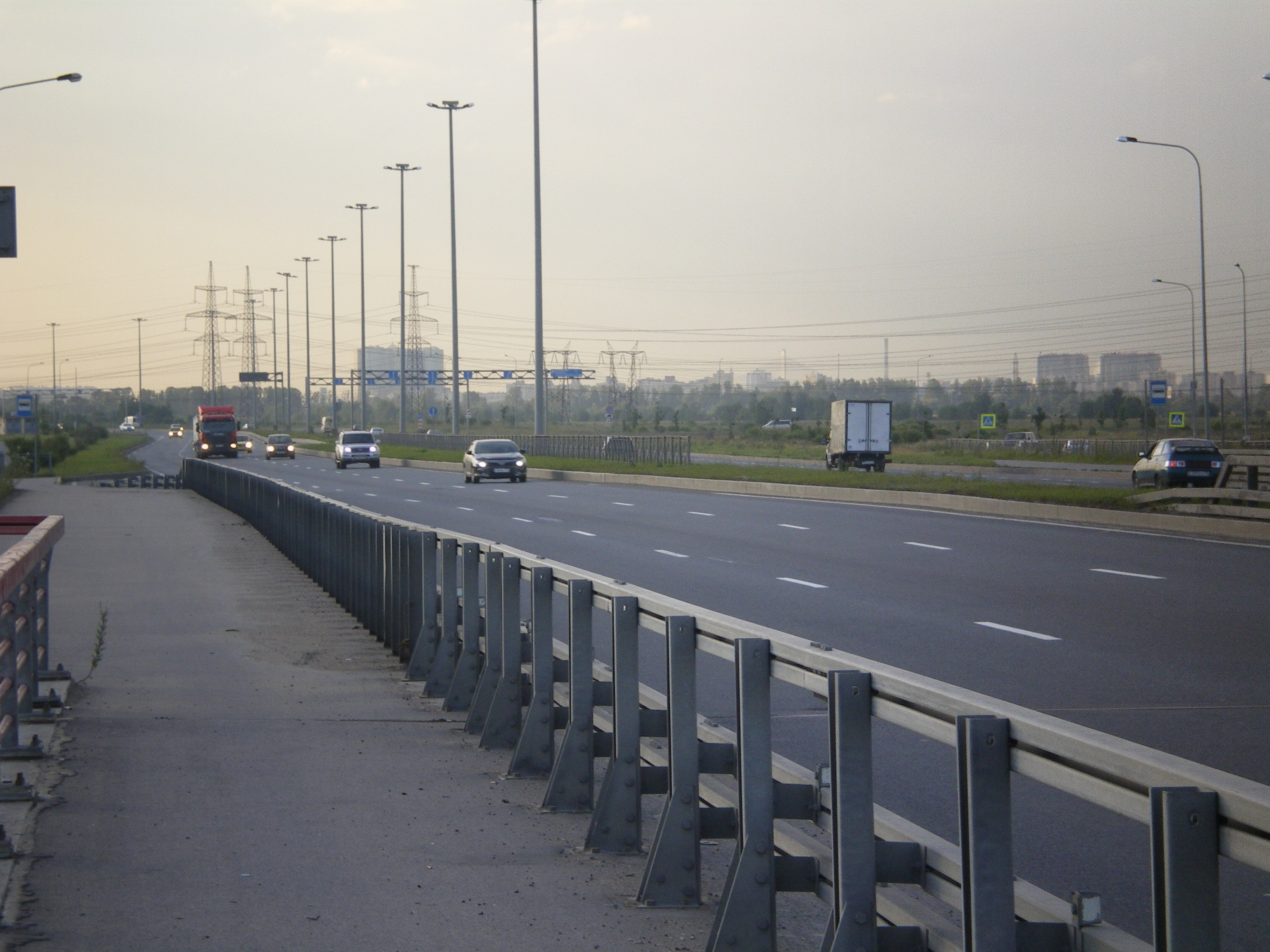 Sofiyskaya fields